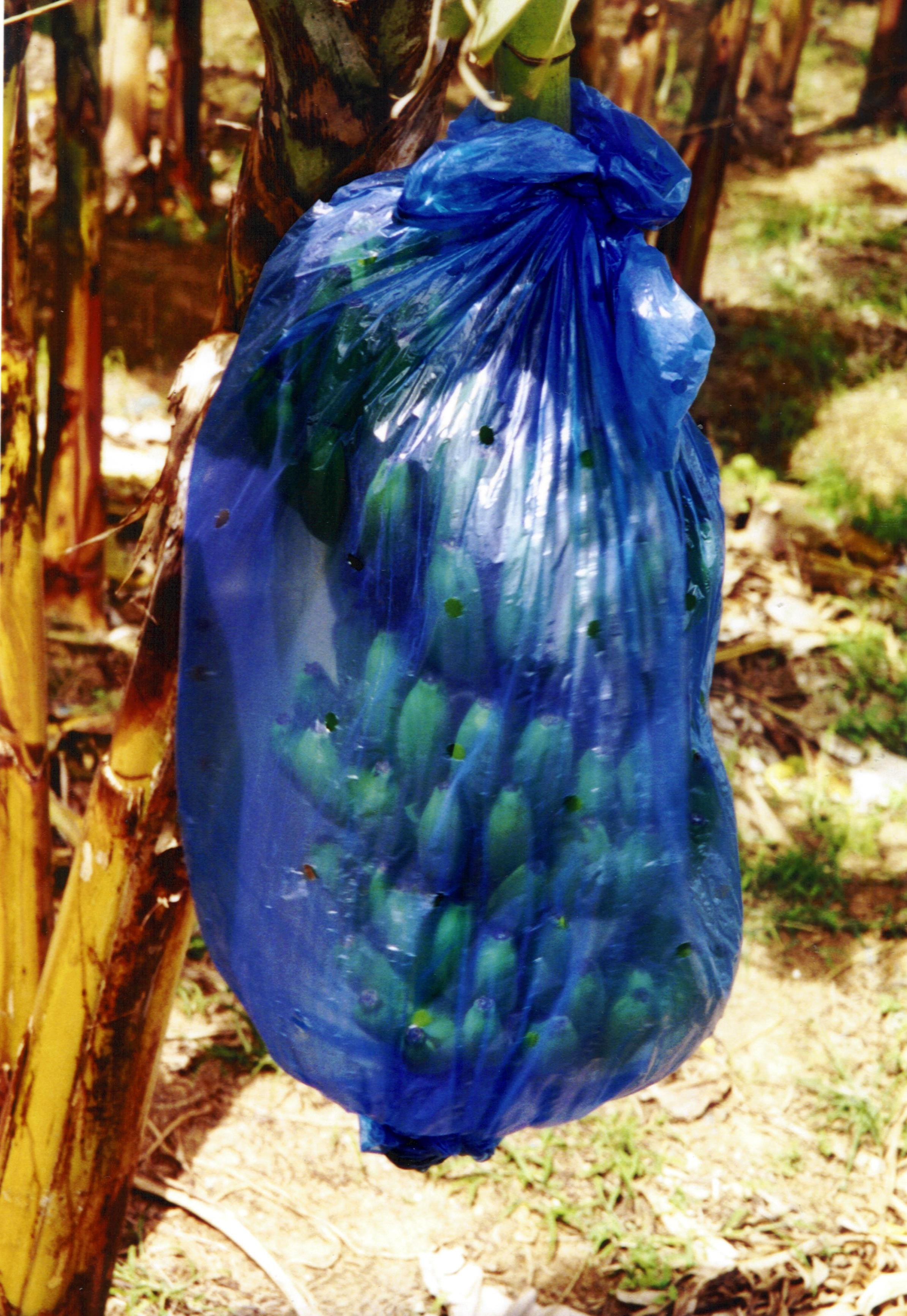 Photo of a banana bunch encased in a blue plastic bag, growing on a banana plantation on the island of St. Lucia